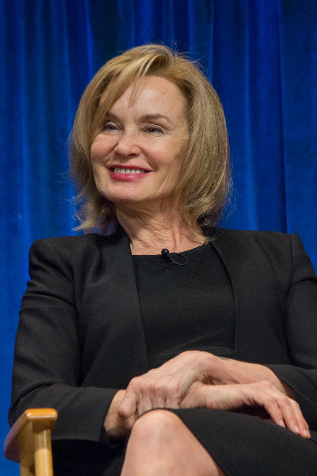 Jessica Lange at PaleyFest 2013 for the TV show "American Horror Story: Asylum"